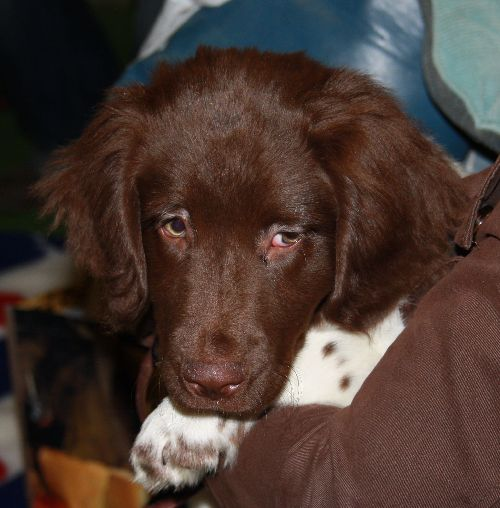 Stabyhoun pup